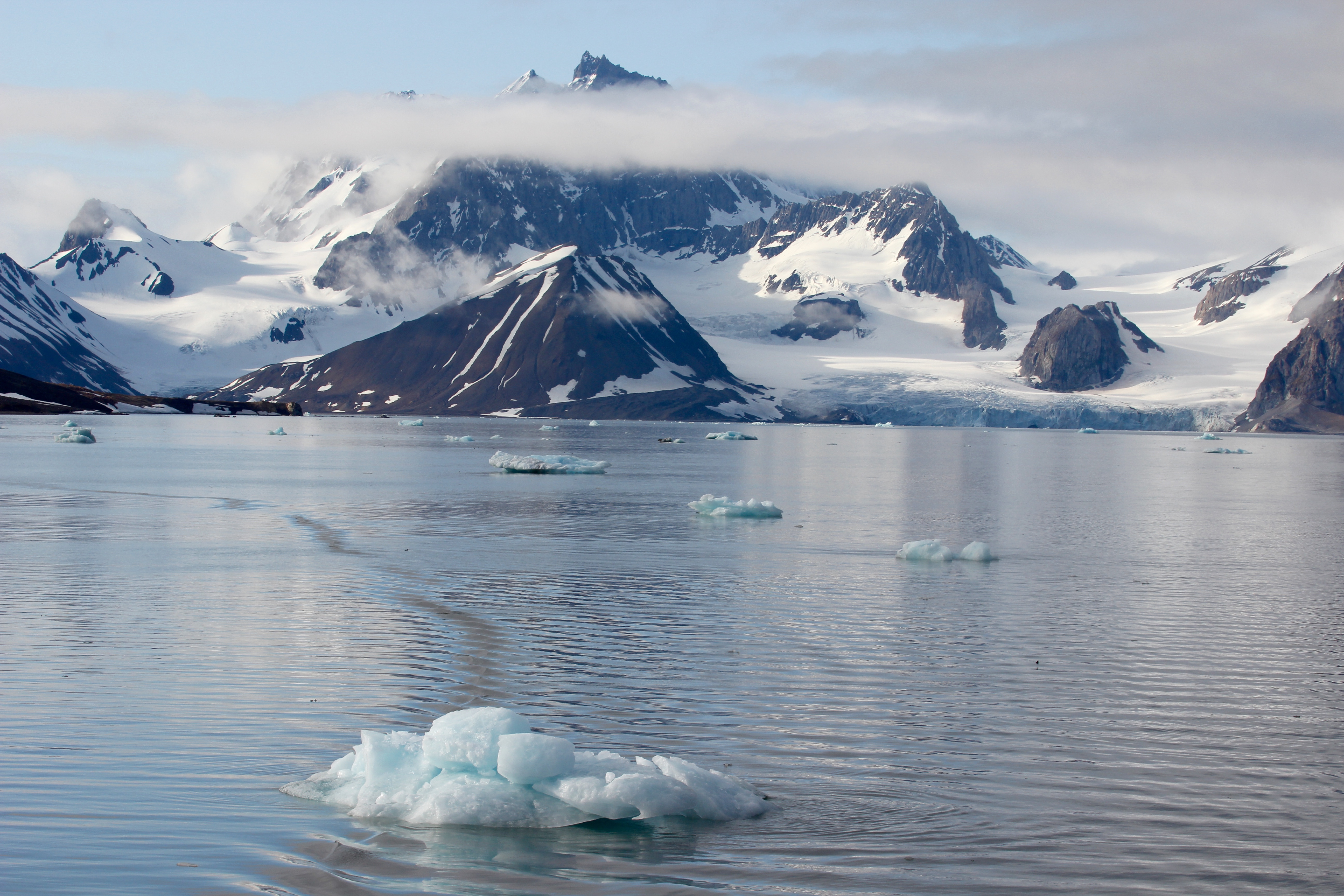 Pictures taken on my Silversea Silver Explorer Arctic cruise. For more on the cruise and dates visit bit.ly/ArcticCruise